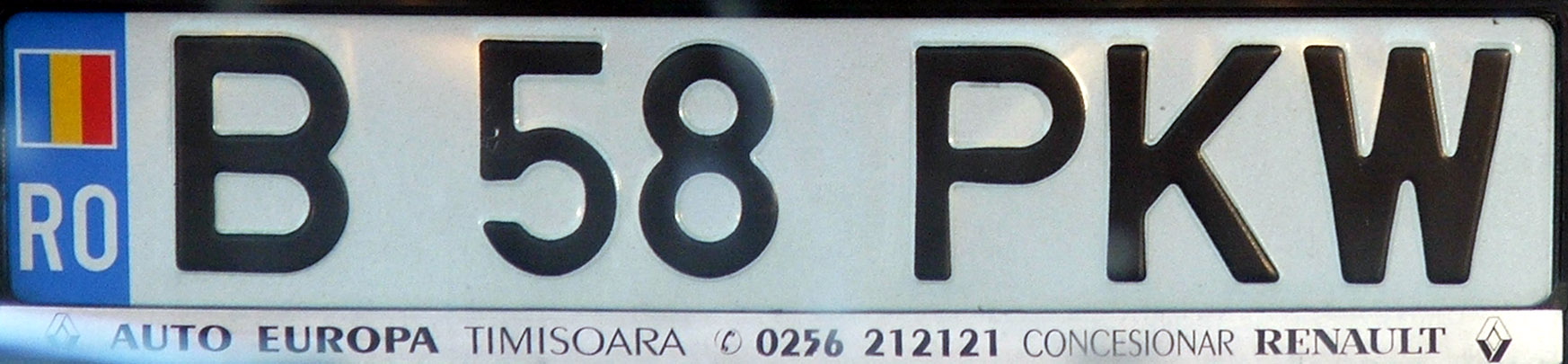 Romanian pre-EU licence plate as seen in 2007.